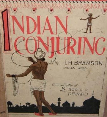 Photograph of Indian Conjuring (1922) by Lionel Hugh Branson. The book is notable for debunking the Indian rope trick.